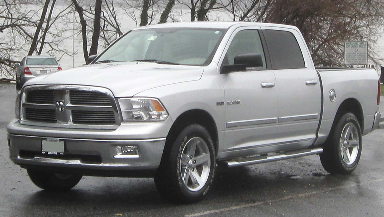 2009 Dodge Ram or 2010 Ram Pickup photographed in Marshall Hall, Maryland, USA.